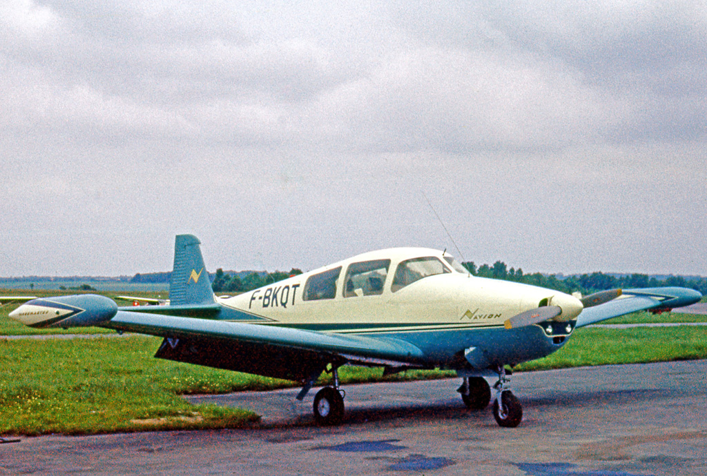 Ryan North American Navion G RangemasterF-BKQT at Toussus-le-Noble near Paris in 1963